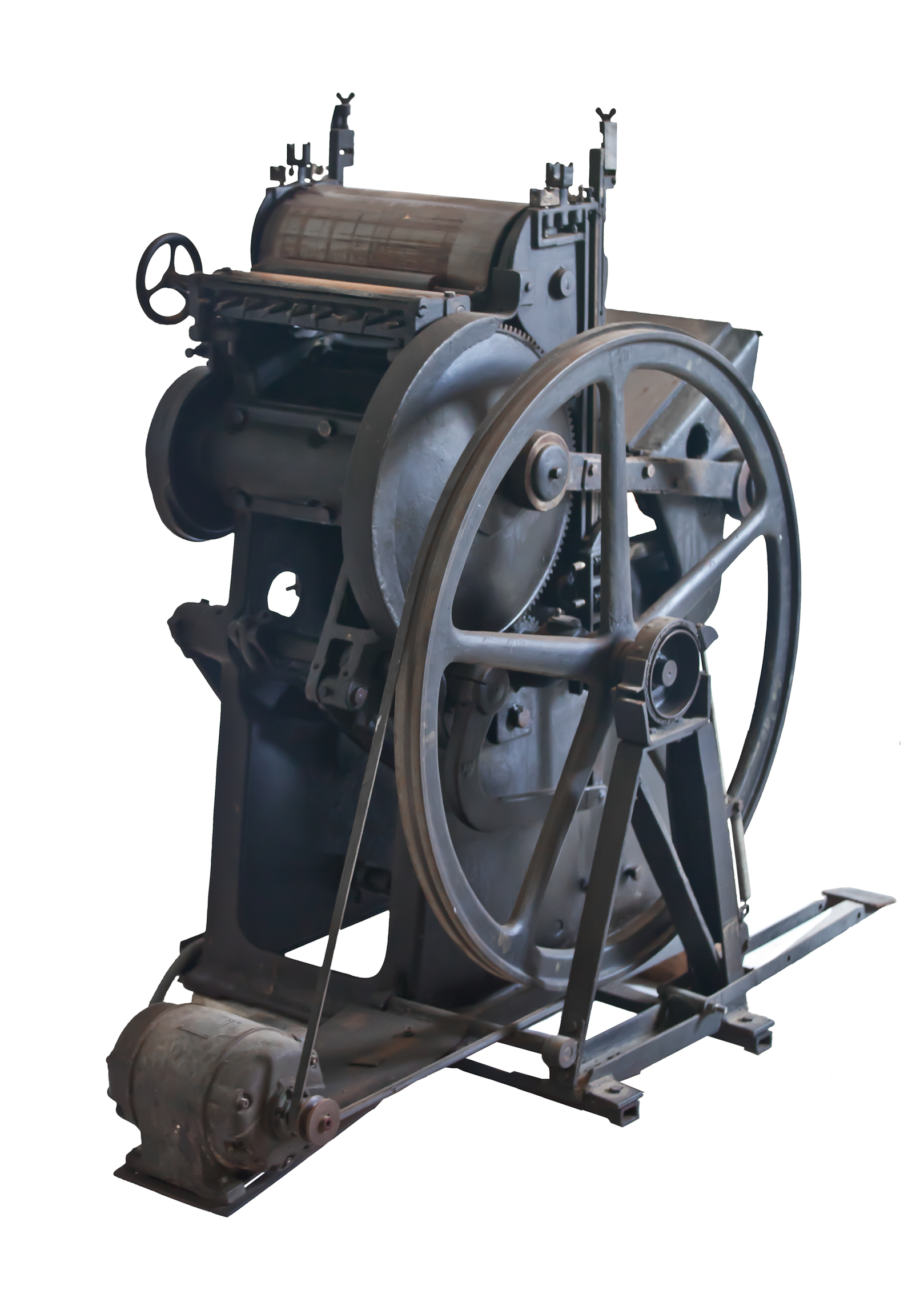 Printing in Galicia (Spain)